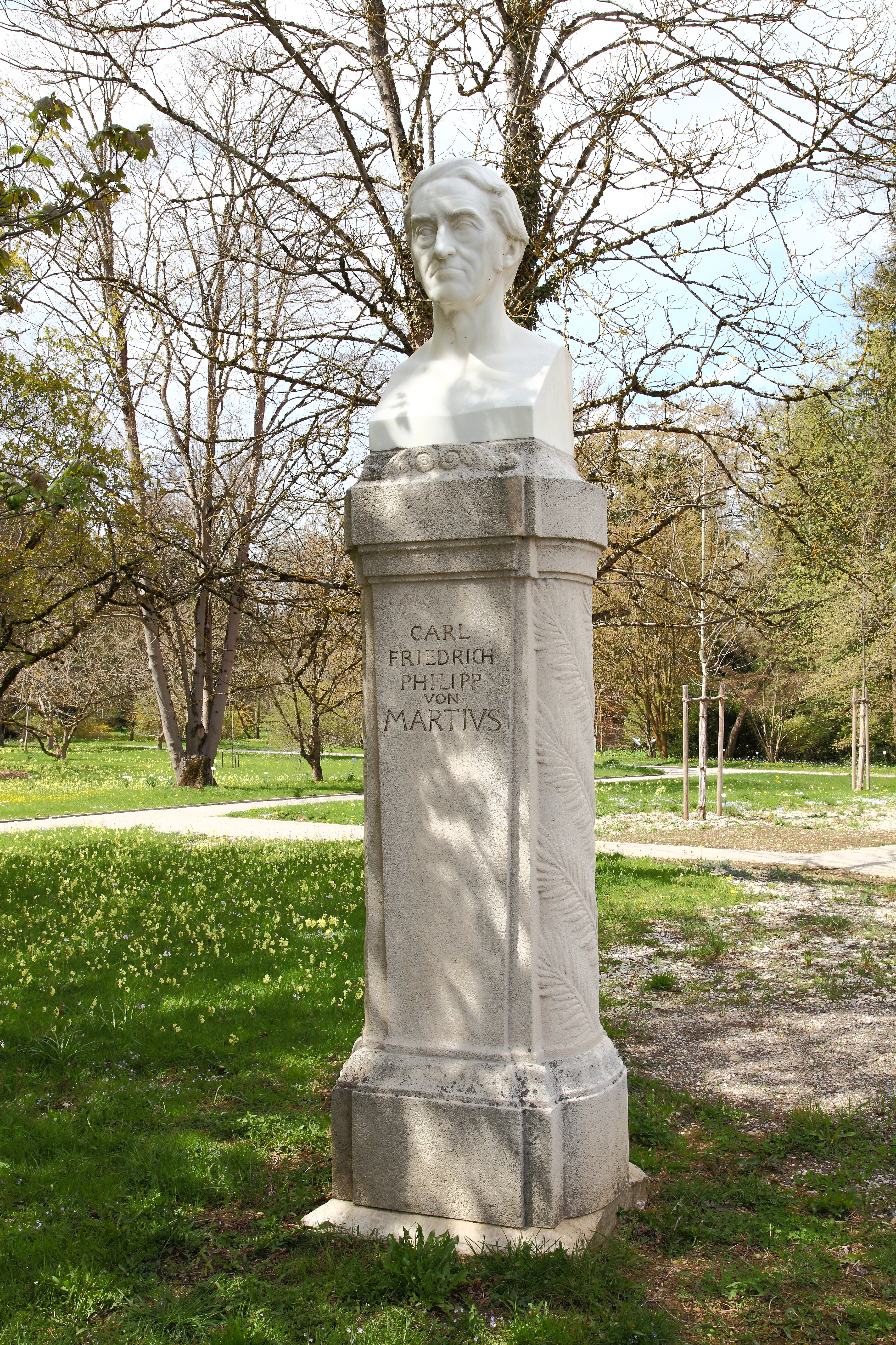 Bust of Carl Friedrich Philipp von Martius, Botanic Garden, Munich, Germany